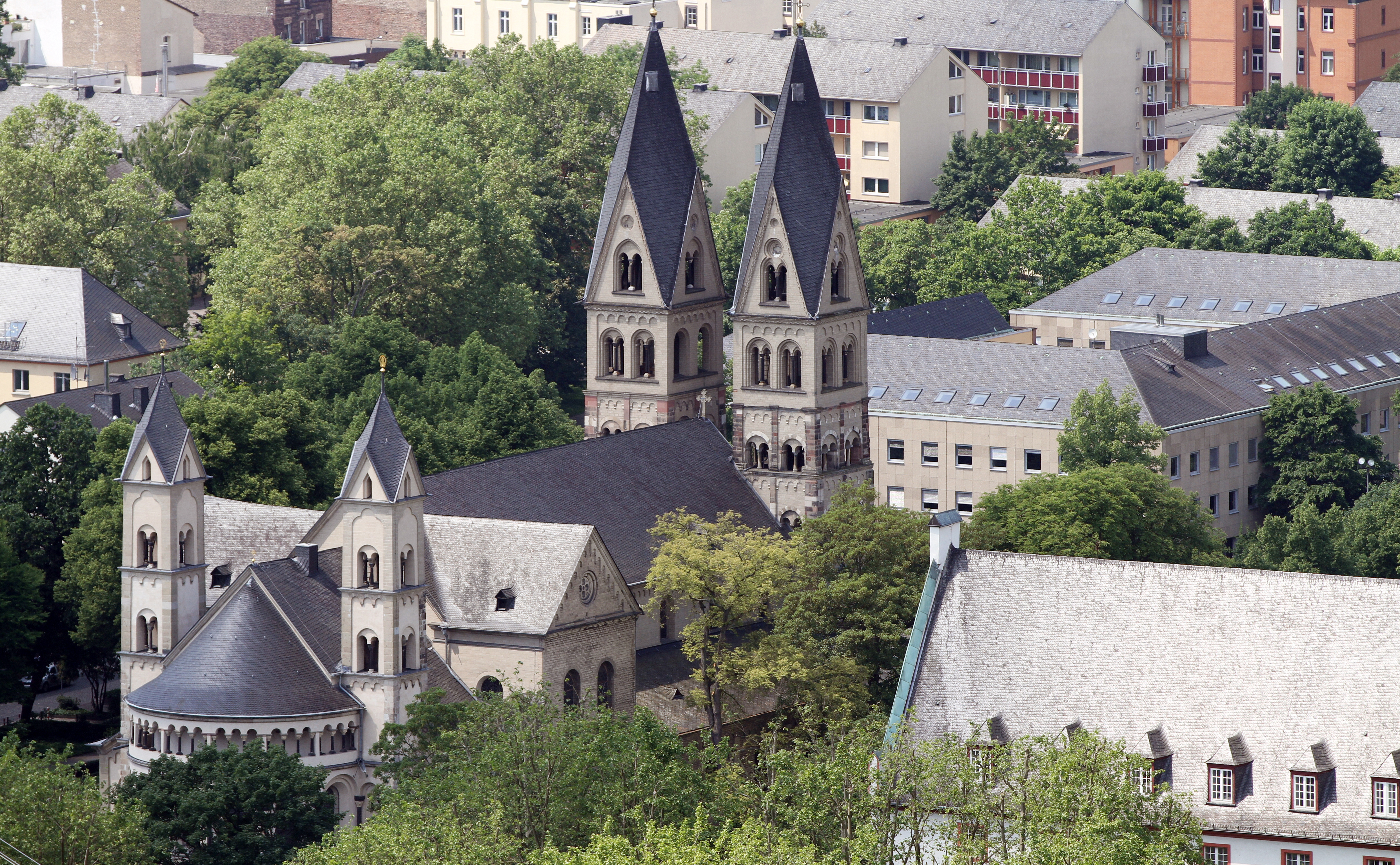 Basilica of St. Castor in Koblenz